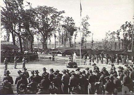 AWM Caption: DALLMAN HARBOUR, NEW GUINEA. 1945-11-04. TROOPS OF 2/3 INFANTRY BATTALION, ATTENDING A MEMORIAL SERVICE OF THANKSGIVING FOR VICTORY AND REMEMBRANCE FOR MEMBERS OF THE UNIT WHO FELL IN THE AITAPE-WEWAK CAMPAIGN. THE TROOPS ARE IN A HOLLOW SQUARE AROUND THE DAIS ERECTED FOR CHAPLAIN R.R. HARLEY TO ADDRESS THE PARADE.